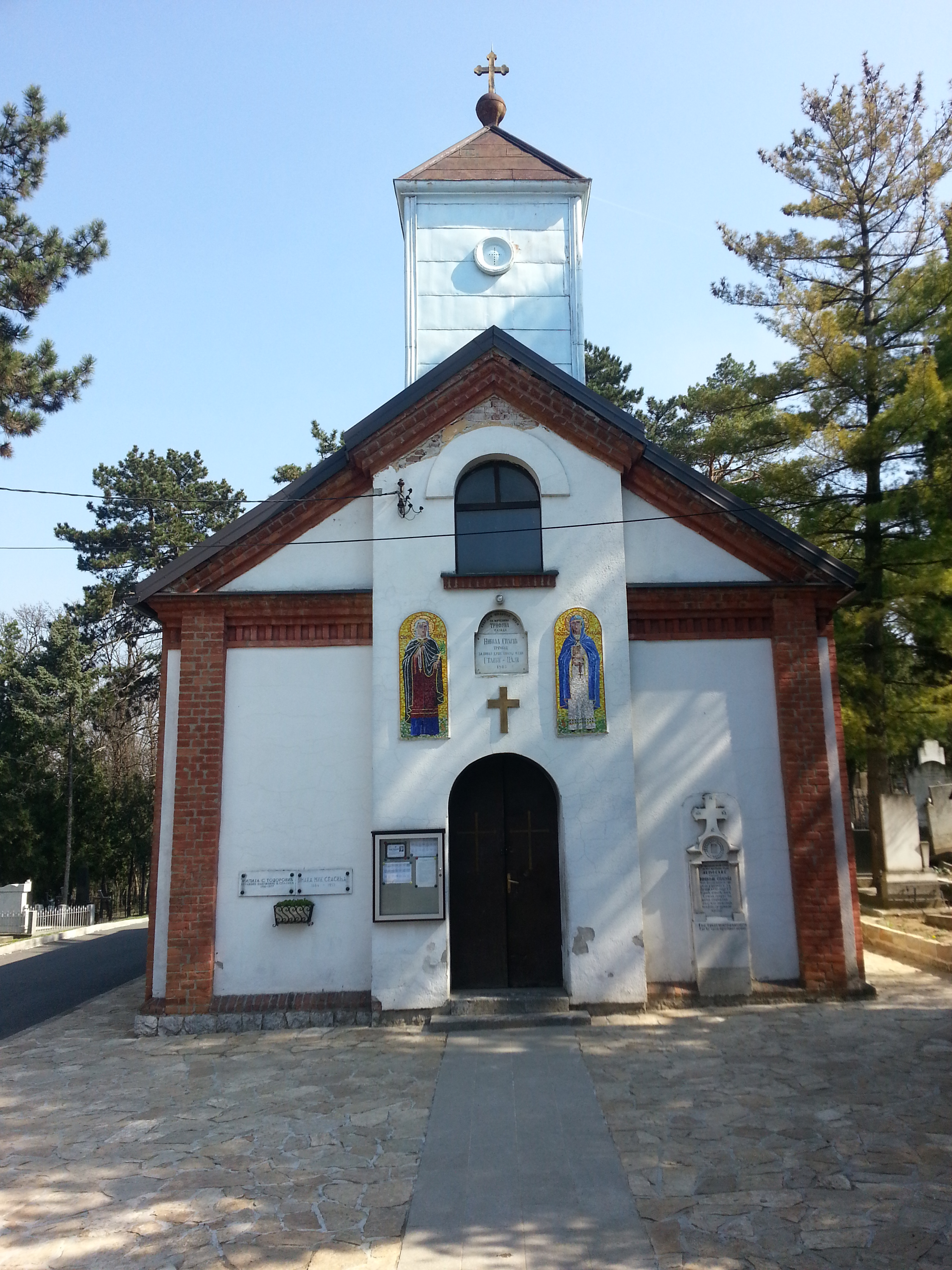 Church of saint Tryphon